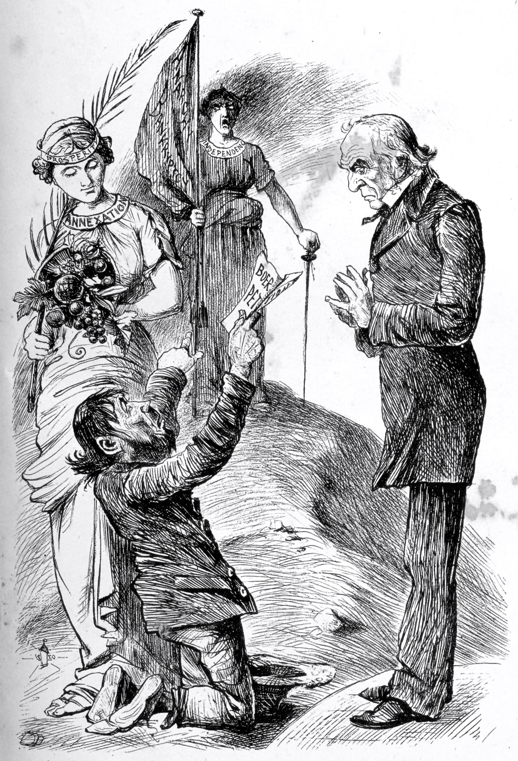 Political cartoon in the reactionary pro-Imperialist newspaper The Lantern. Cape Town. The Boers are represented on their knees petitioning Britain for continued independence. Annexation is represented as prosperity and independence as anarchy and bankruptcy.